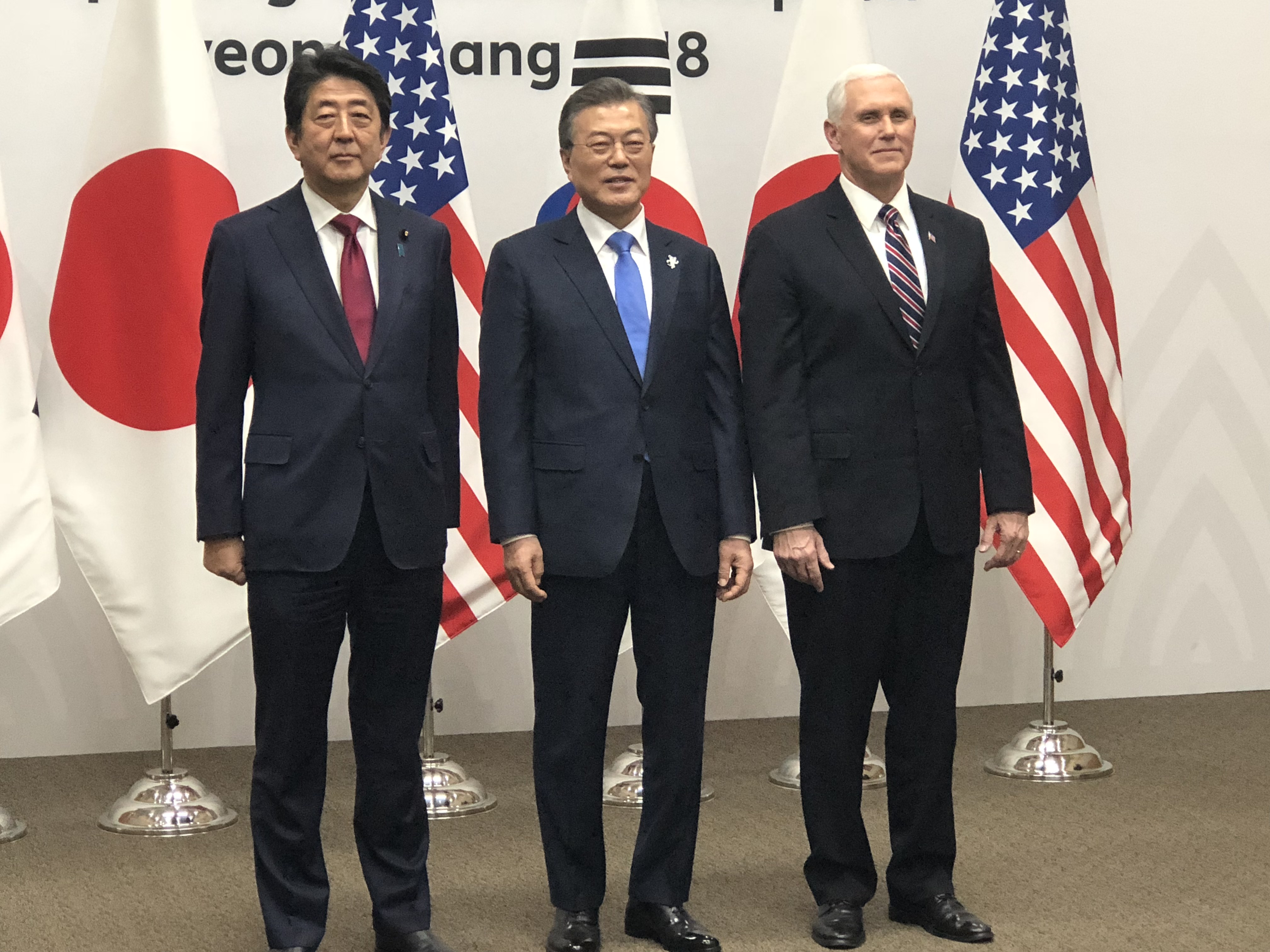 Prime Minister Shinzo Abe of Japan, President Moon Jae-in of South Korea and U.S. Vice President Mike Pence meet in Pyeongchang, South Korea, site of the 2018 Winter Games.